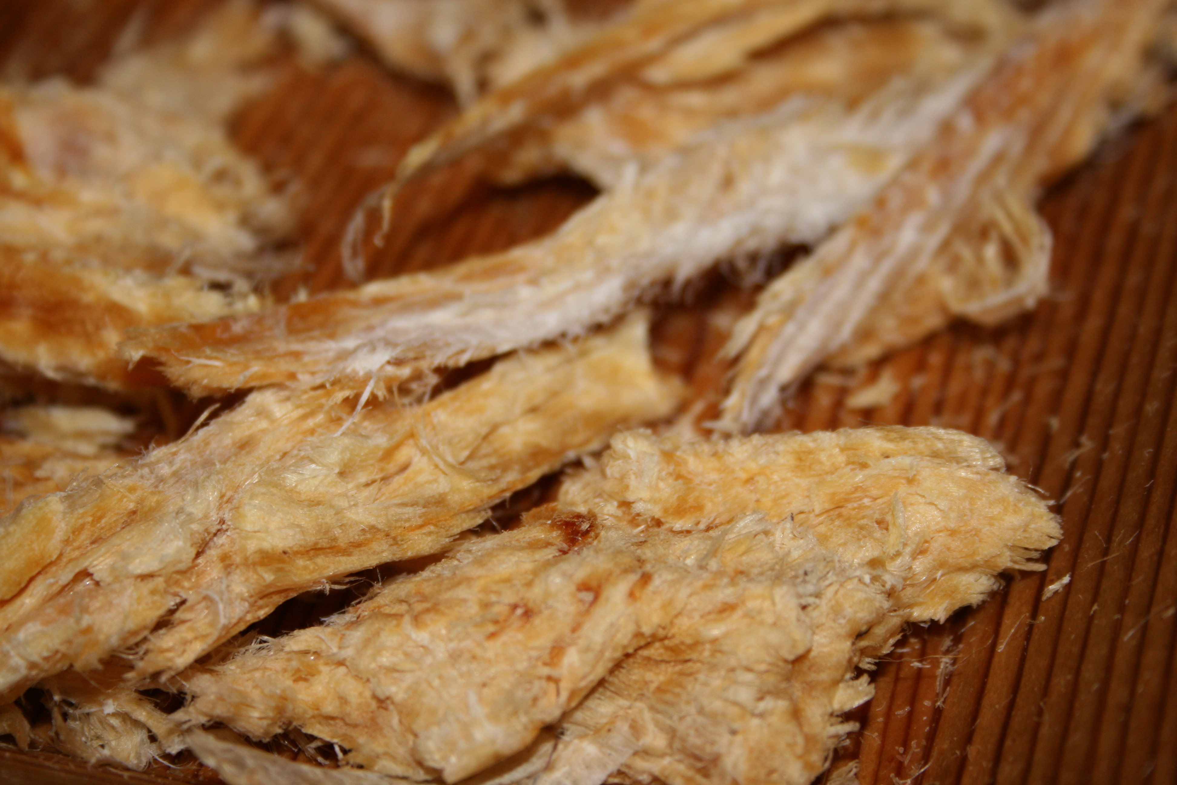 Harðfiskur: icelandic wind-dried fish. Harðfiskur: peixe seco da Islândia.